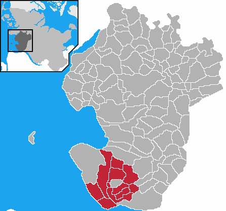 This map shows the area of the Amt Marne-Land in the district Dithmarschen, Schleswig-Holstein, Germany.